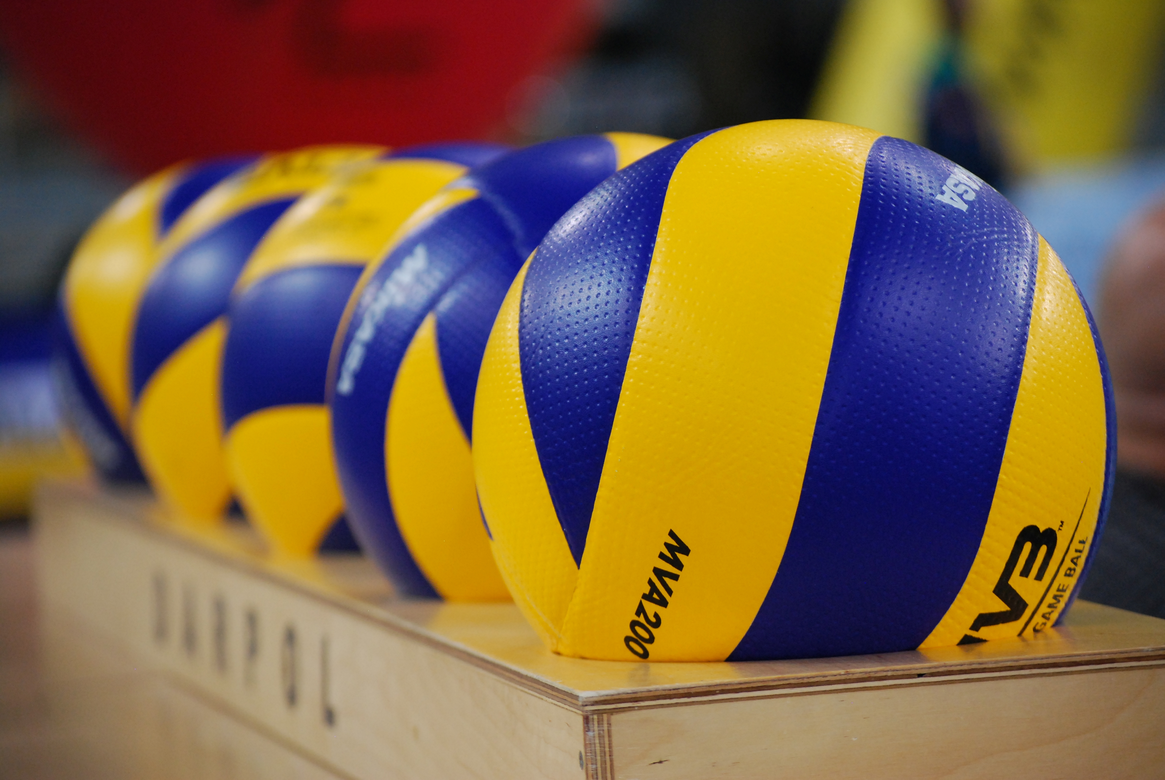 Mikasa voleyball balls